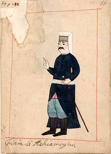 Overseer of the conscripts "Chiaia di Achiamoglani" - Acemioglanlar kâhyasi Was in charge of the açemi oglans, the conscript Christian boys who were later to become janissaries.